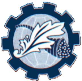 Logo of Economics.